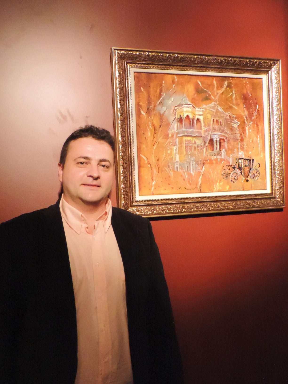 Bulgarian painter Villy Nikolov with his picture "Strawberries House" at the opening of the exhibition "The Fragility of Tolerance" in the National Historical Museum - Sofia